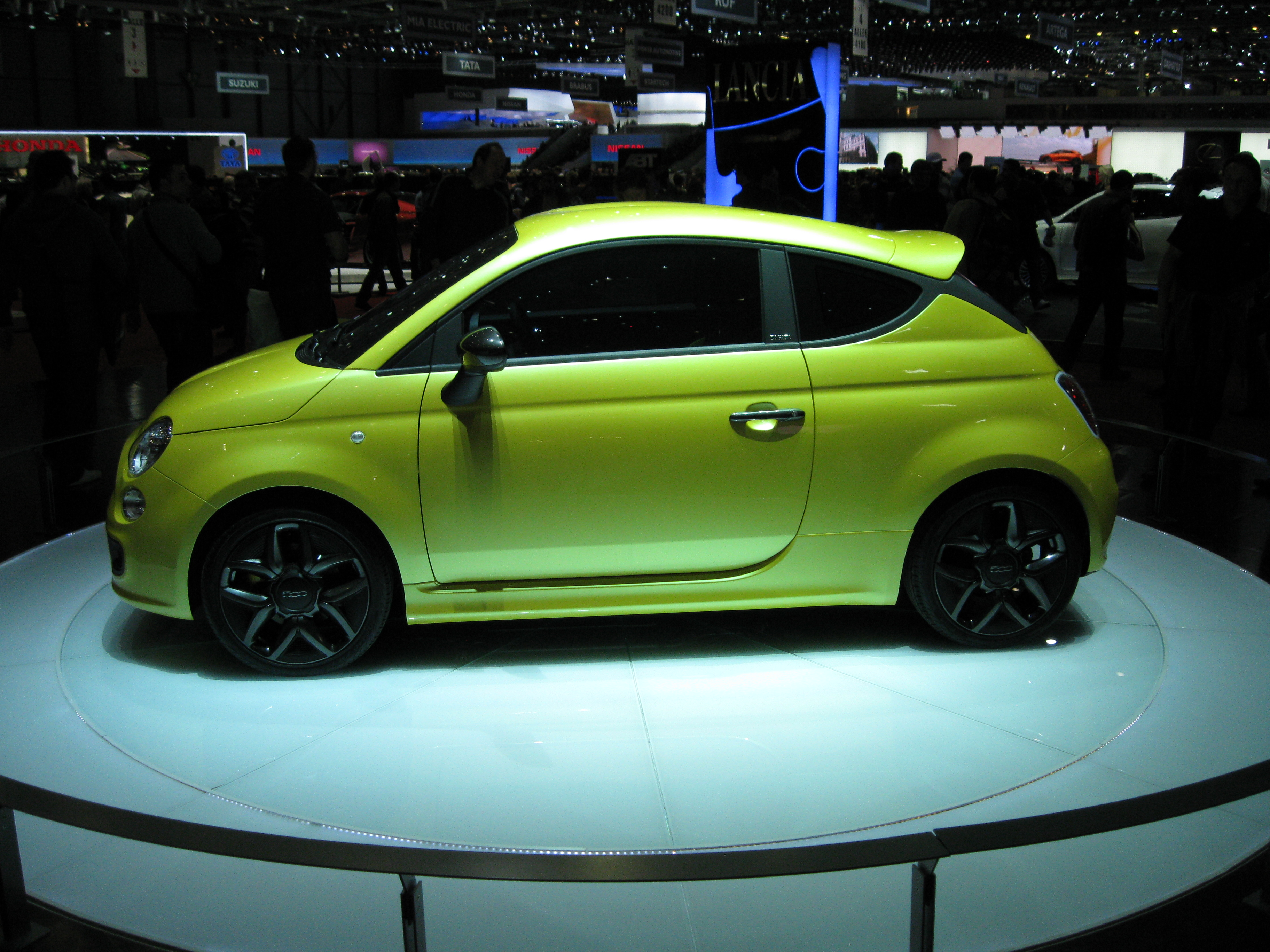 Geneva Motor Show 2011